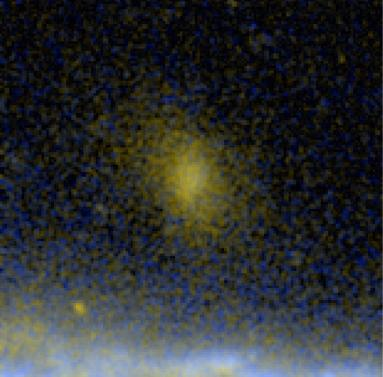 An ultraviolet image of NGC 4627 taken with GALEX. Credit: GALEX/NASA.